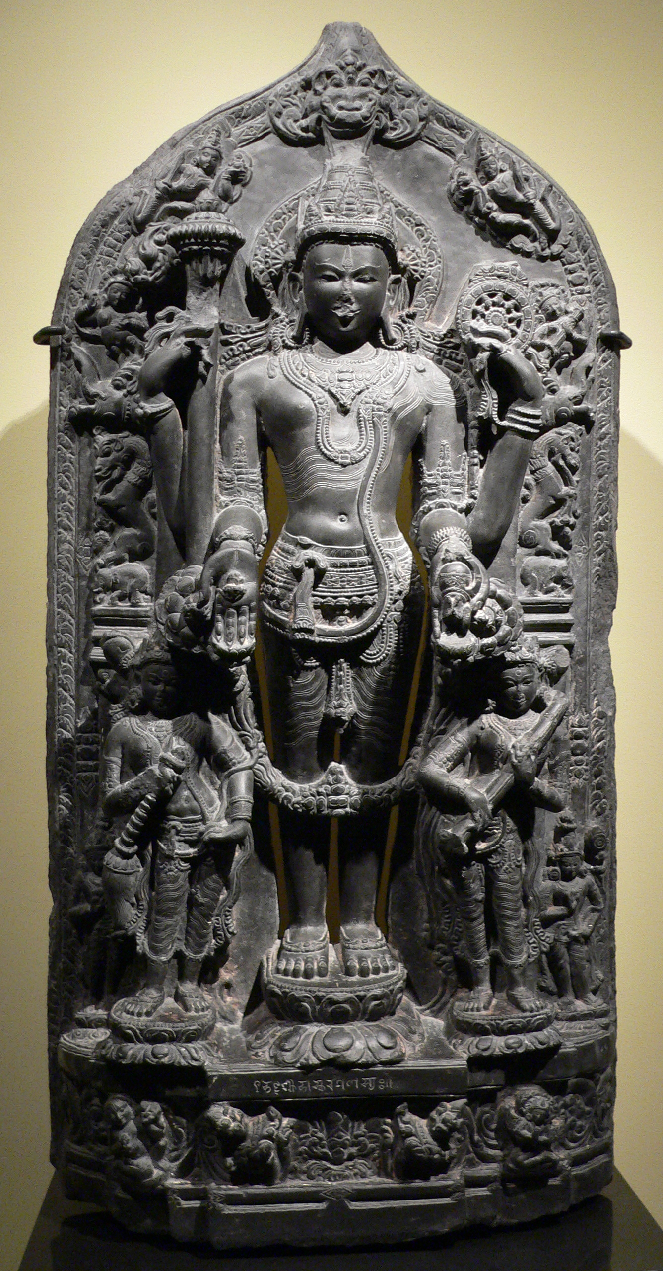 West Bengal, India The God Vishnu with Lakshmi and Sarasvati 12th century Stone, probably phyllite